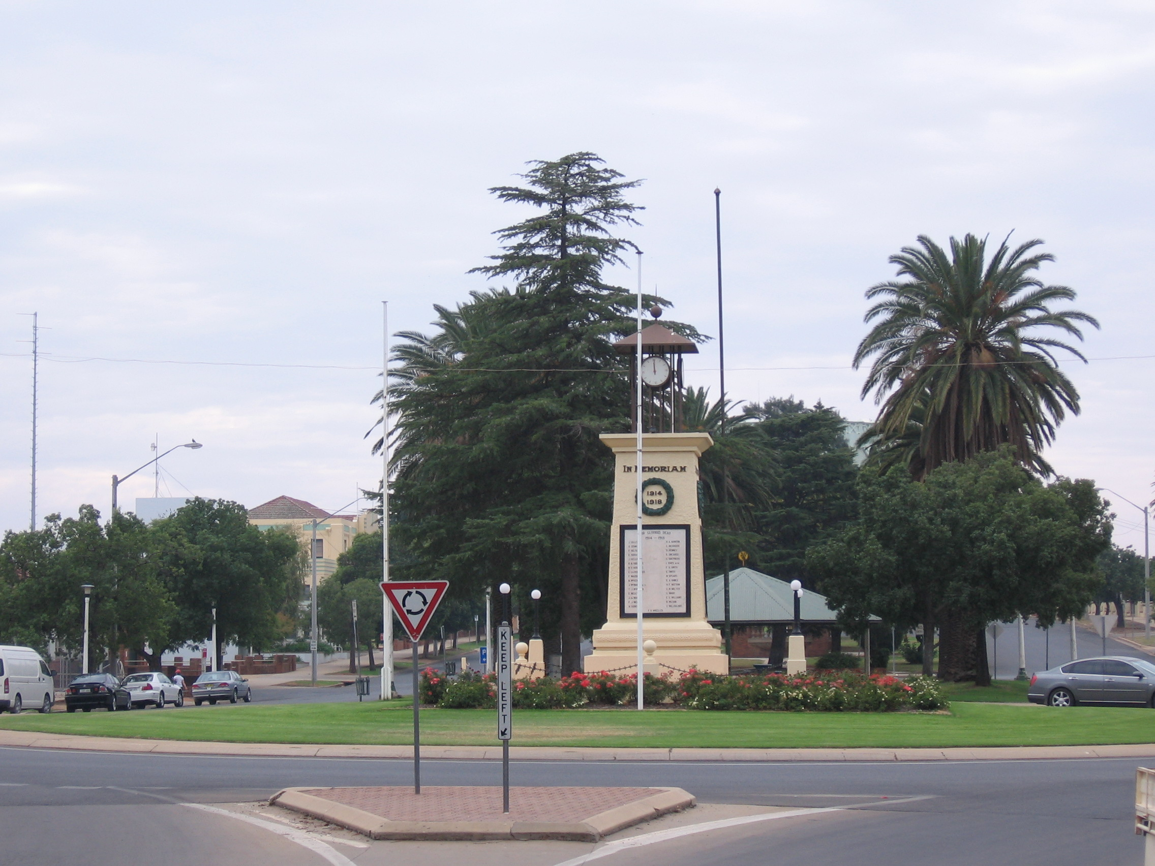 War memorial at Leeton, New South Wales